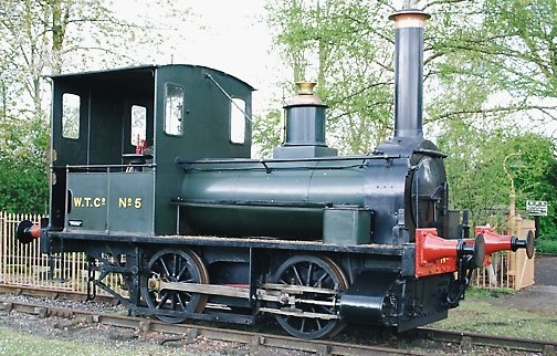 Shannon_at_Didcot Railway Station, England